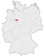 Map of the Wesergebirge mountain range in Lower Saxony, Germany